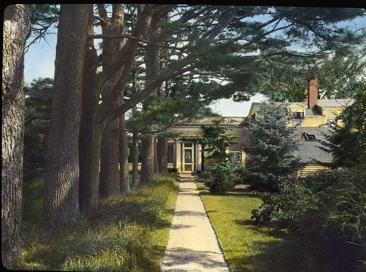 Title ["Chailey," Charles William Moseley house, Newburyport, Massachusetts. Pathway from flower garden to house] Contributor Names Johnston, Frances Benjamin, 1864-1952, photographer Created / Published [1920] Subject Headings - Houses--Massachusetts--Newburyport--1920 - Walkways--Massachusetts--Newburyport--1920 Format Headings Lantern slides--Hand-colored--1920. Notes - Site History. House Architecture: Built by Charles William Moseley, circa 1915. - On slide: Gold star sticker and blue star sticker. - Title, date, and subject information provided by Sam Watters, 2011. - Forms part of: Garden and historic house lecture series in the Frances Benjamin Johnston Collection (Library of Congress). - Penciled on slide (not by FBJ?): "Chailey." Medium 1 photograph : glass lantern slide, hand-colored ; 3.25 x 4 in. Call Number/Physical Location LC-J717-X108- 35 [P&P] Repository Library of Congress Prints and Photographs Division Washington, D.C. 20540 USA Digital Id ppmsca 16762 //hdl.loc.gov/loc.pnp/ppmsca.16762 Library of Congress Control Number 2008676062 Reproduction Number LC-DIG-ppmsca-16762 (digital file from original item) Rights Advisory No known restrictions on publication. Online Format image Description 1 photograph : glass lantern slide, hand-colored ; 3.25 x 4 in. LCCN Permalink